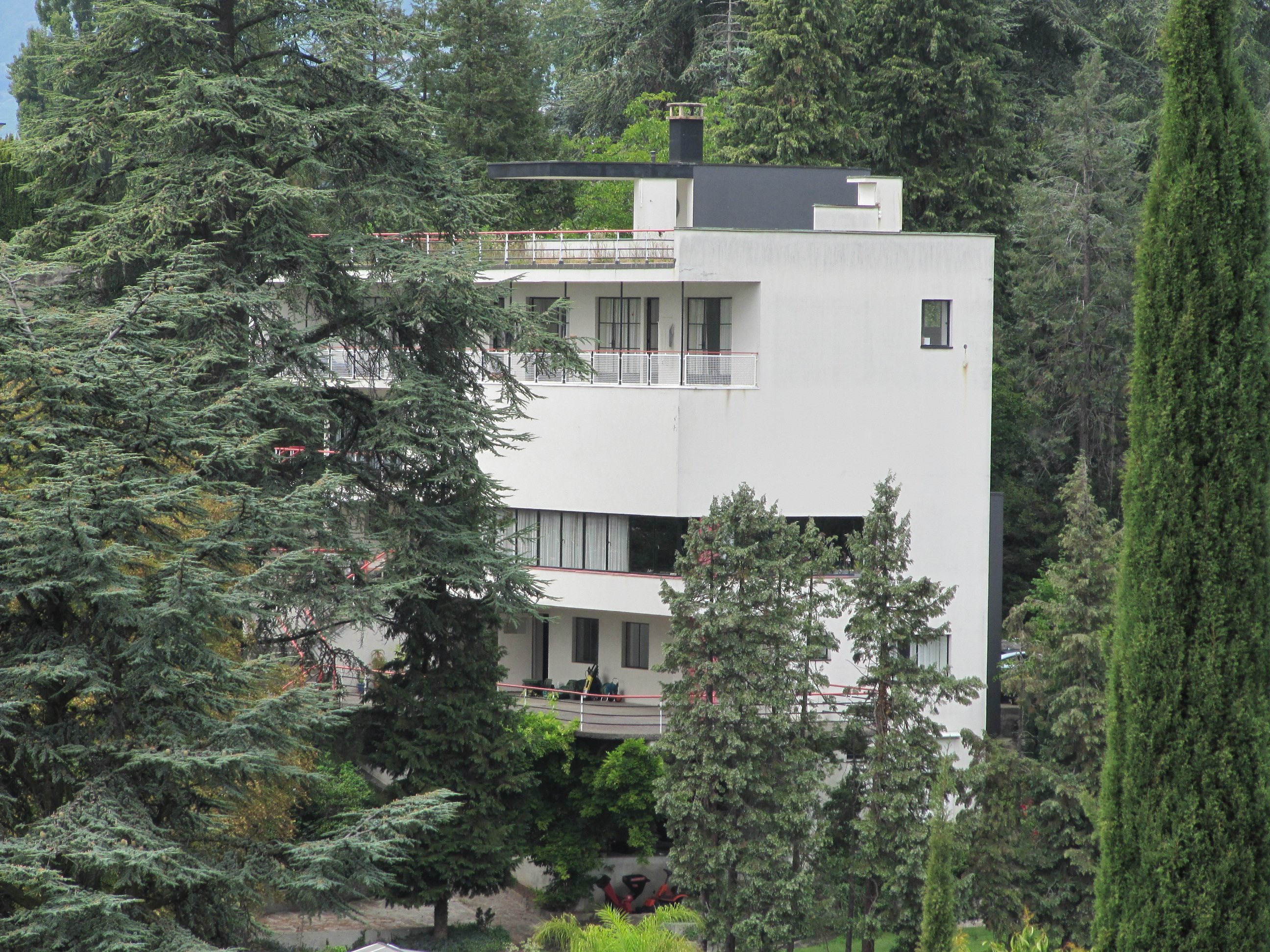 Villa Kenwin, La-Tour-de-Peilz, Switzerland